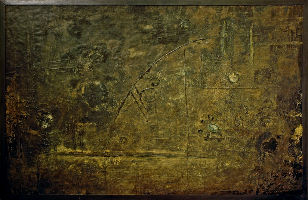 Painting by Jan Koblasa, Noli tangere circulos meos III, combined technique on canvas (1960)